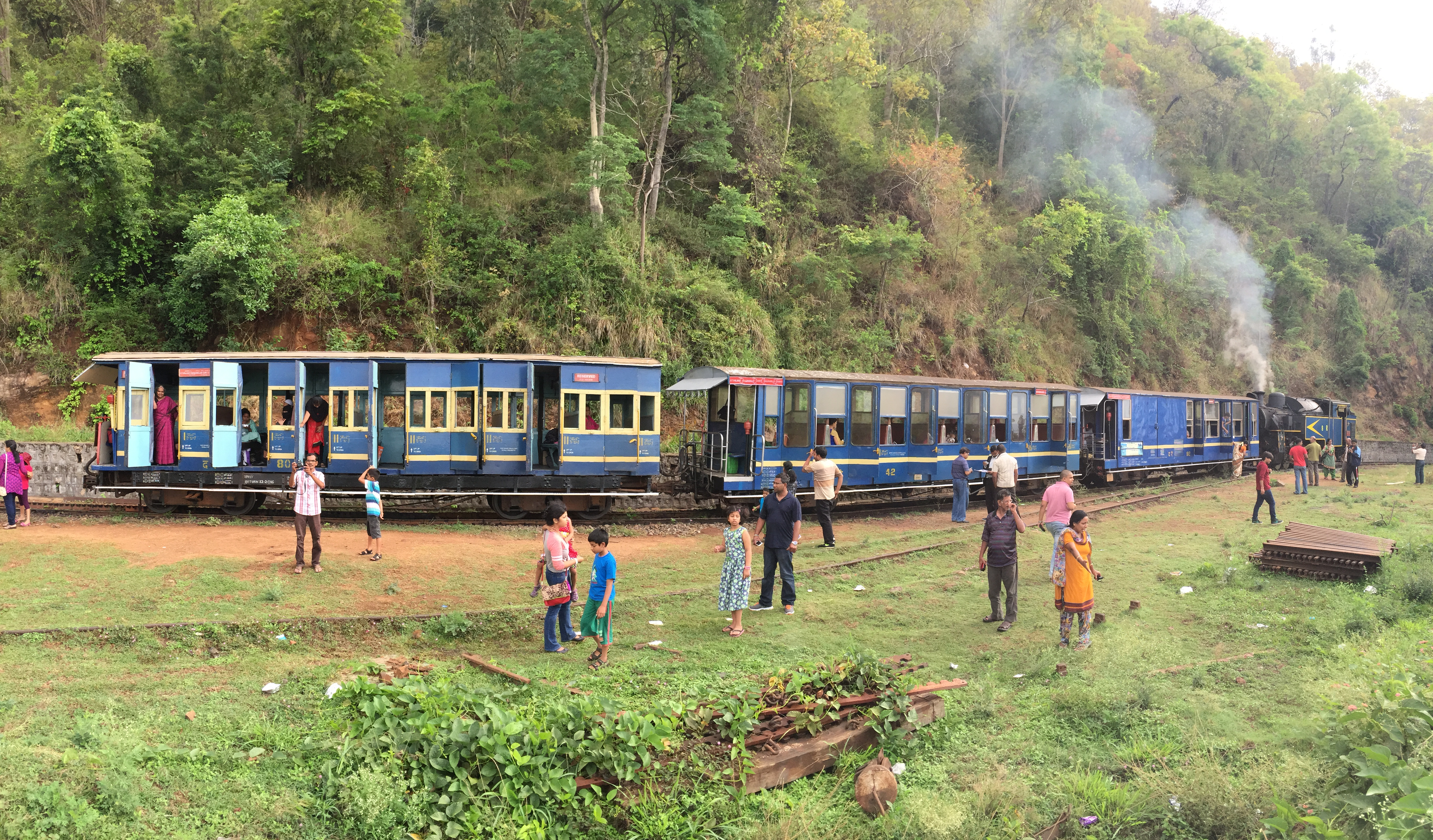 Hill train